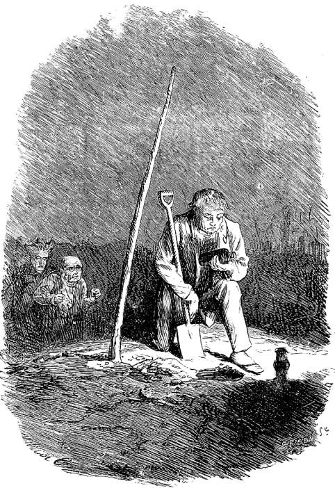 Boffin's abstracting the bottle from the mound